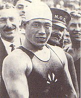 鶴田 義行(Yoshiyuki Tsuruta:Gold Medalist of Man's 200m Breaststroke at the 1928 Amsterdam Olympic Games)